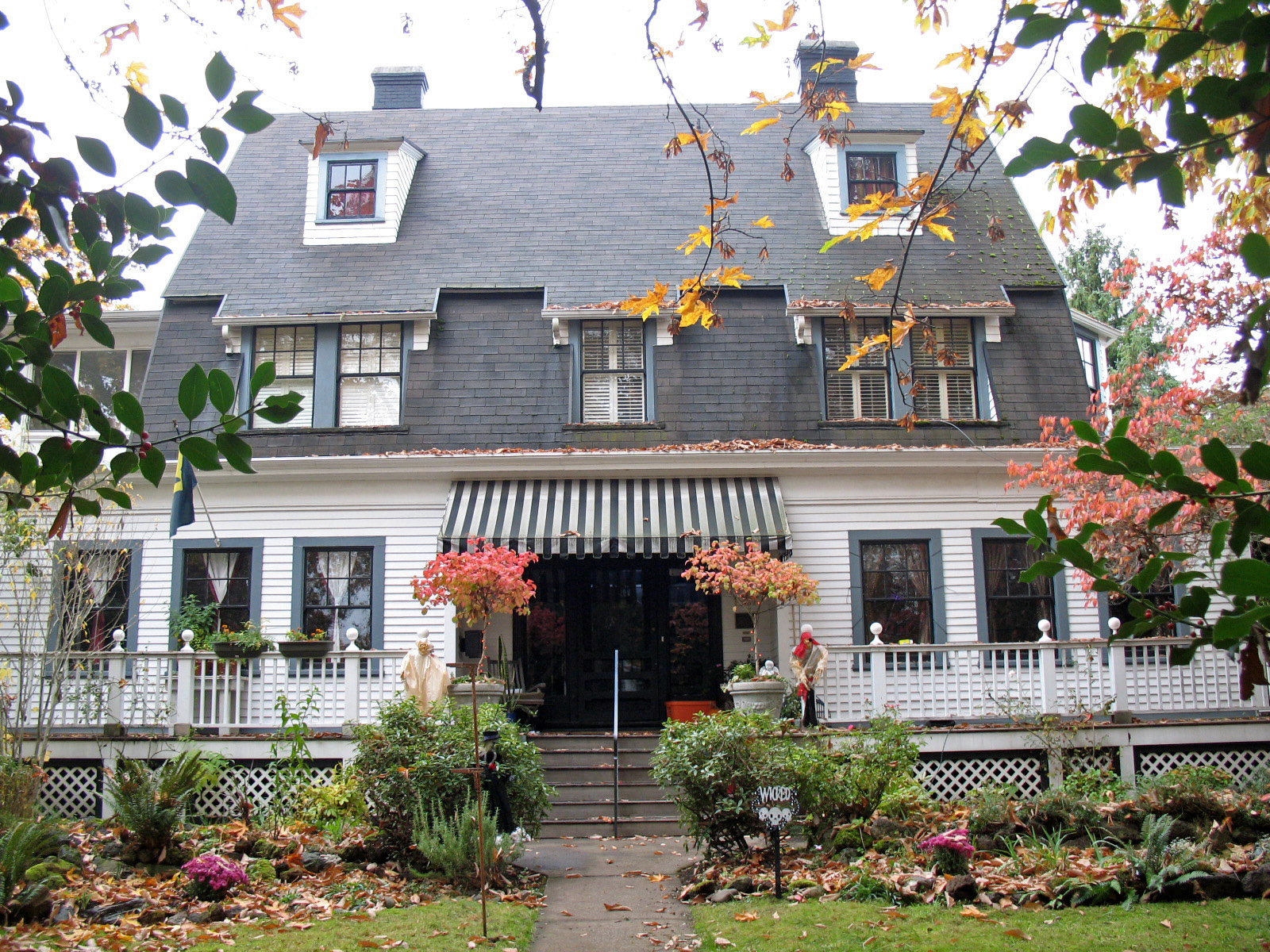 National Register of Historic Places listings in Northeast Portland, Oregon. George Earle Chamberlain House, 1927 NE Tillamook St, Portland, OR. Photographed October 25, 2009 from the north side of NE Tillamook St. between NE 19th and NE 20th Ave.